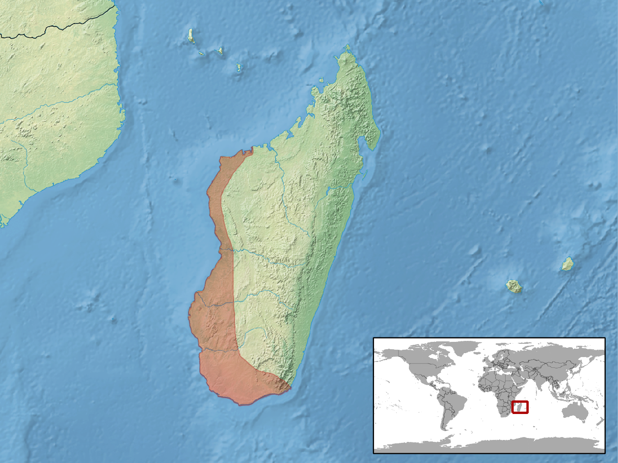 geographic distribution of Paroedura picta (Native: Madagascar)